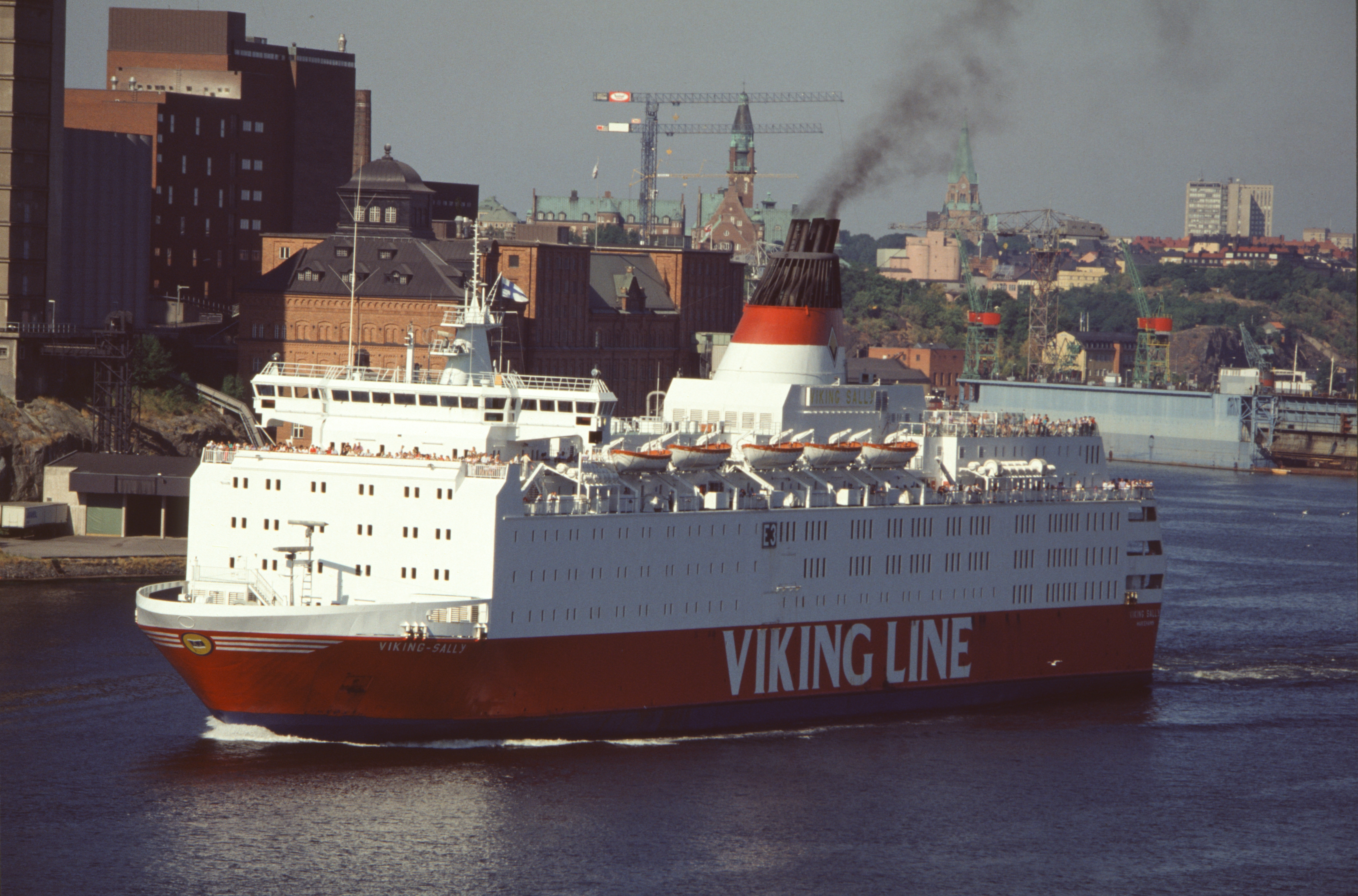 Cruiseferry MS Viking Sally of Viking Line (Rederi Ab Sally) in Stockholm. It was sold in 1989 to EFFOA, Finland, who later sold it to Nordström & Thulin (Estline) in 1993 and was renamed Estonia. It sunk on 28 September 1994 in the Baltic Sea, in one of the worst post-WW2 maritime disasters. 852 people were lost, 137 survived.